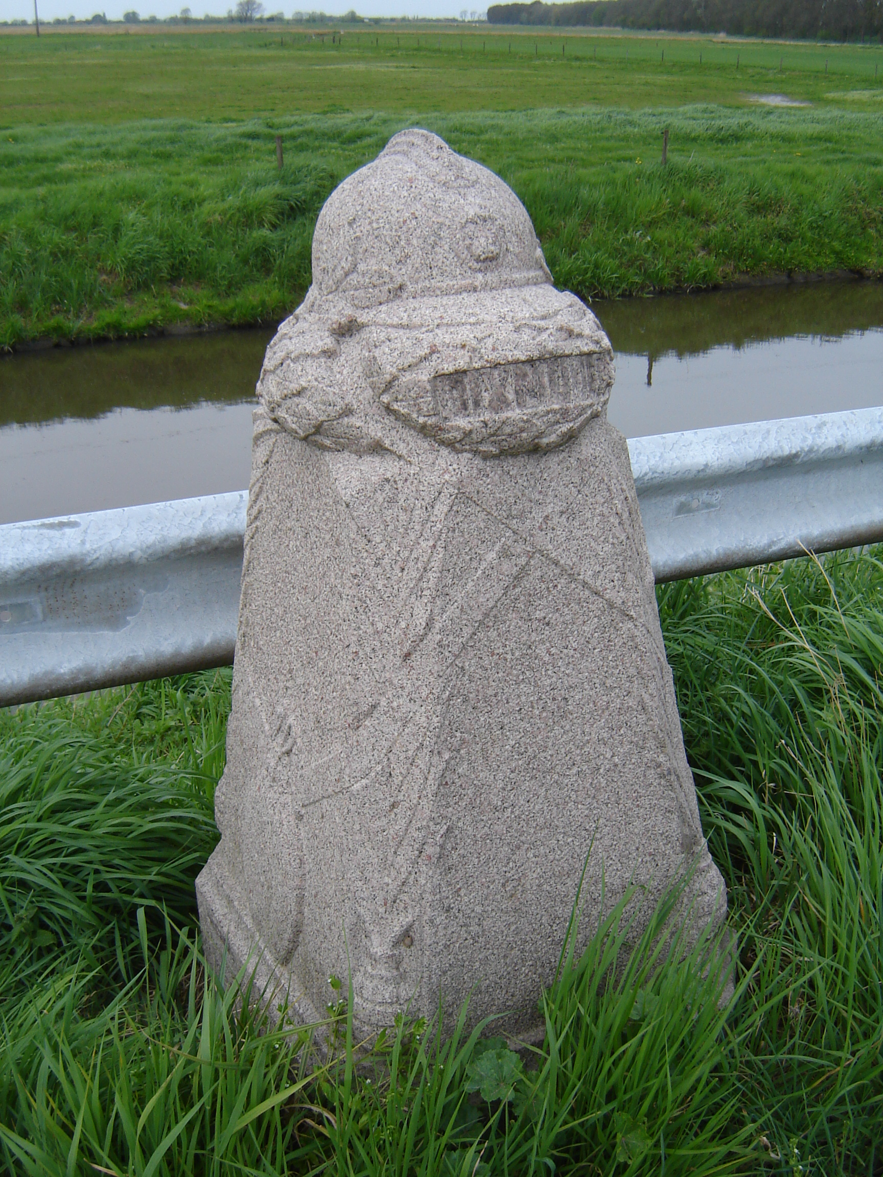 "Demarcatiepaal nr. 5" (demarcation post nr 5) in Noordschote. Noordschote, Lo-Reninge, West Flanders, Belgium